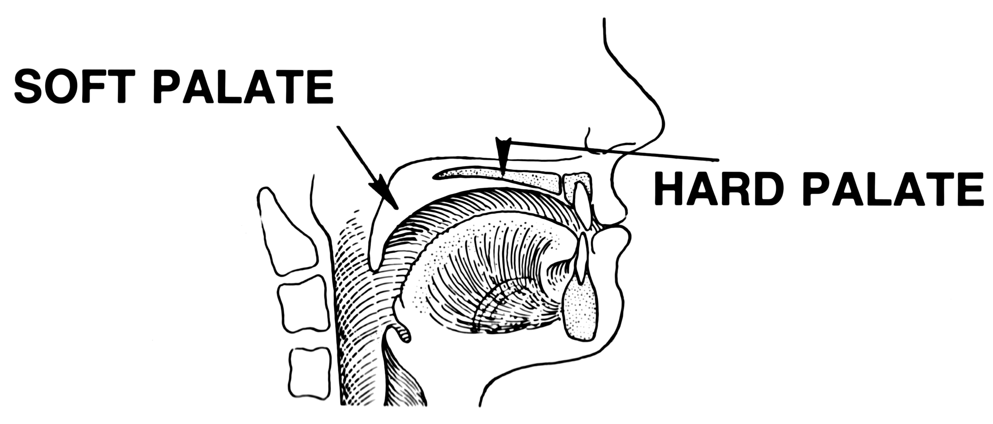 Line art drawing of palate.